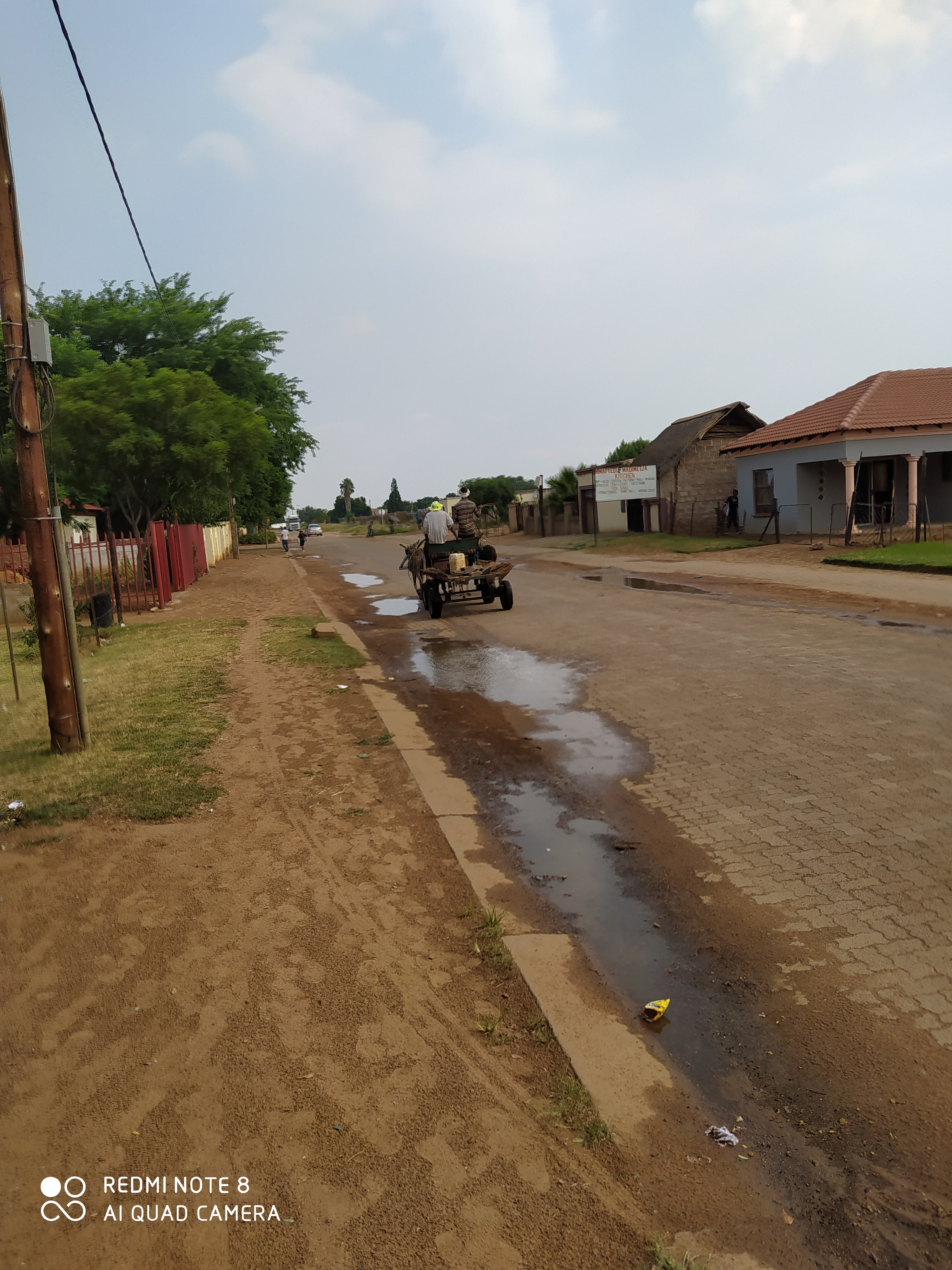 Donkey karts are hired to move furniture This is an image with the theme "Africa on the Move or Transport" from: South Africa